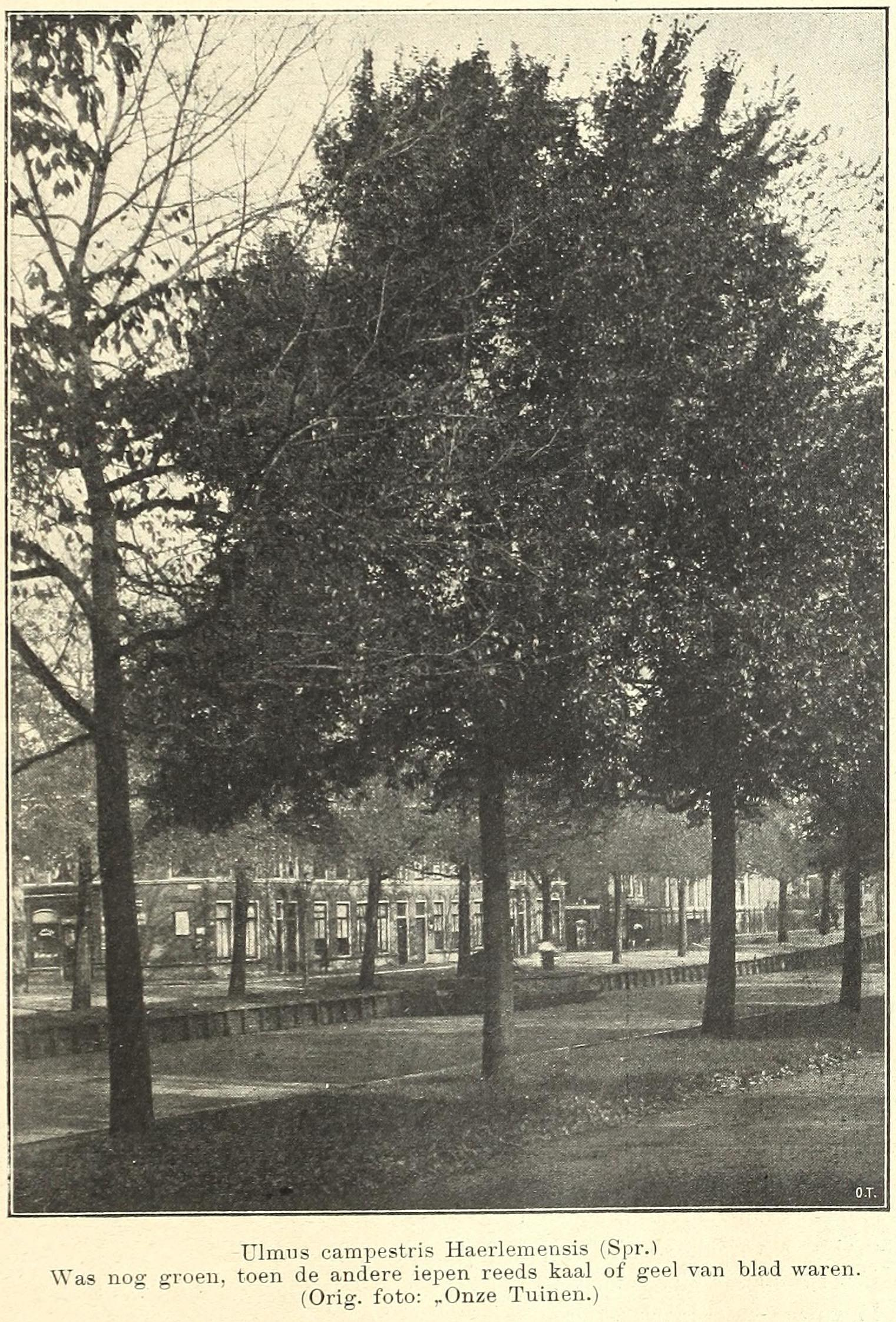 Ulmus campestris Haerlemensis (Spr.) Was still green when the other elms were already bare or yellow leaves.